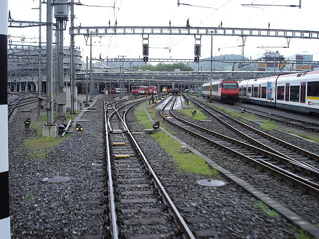 Zentralbahn Luzern